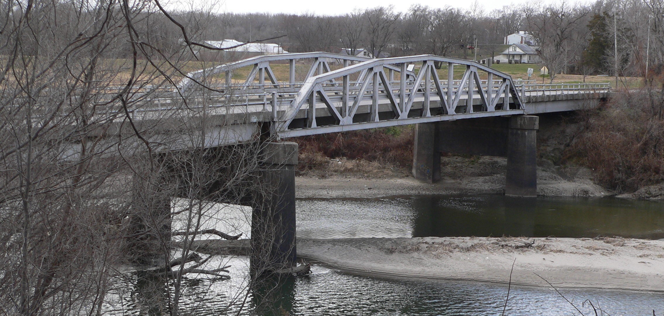 Bridge in Ashland, Nebraska, carrying Silver St. across Salt Creek; seen from the northeast (downstream). The bridge was constructed in 1936, and is on the National Register of Historic Places. It is noteworthy for its Warren pony trusses with polygonal top chords, a design not commonly used in Nebraska.